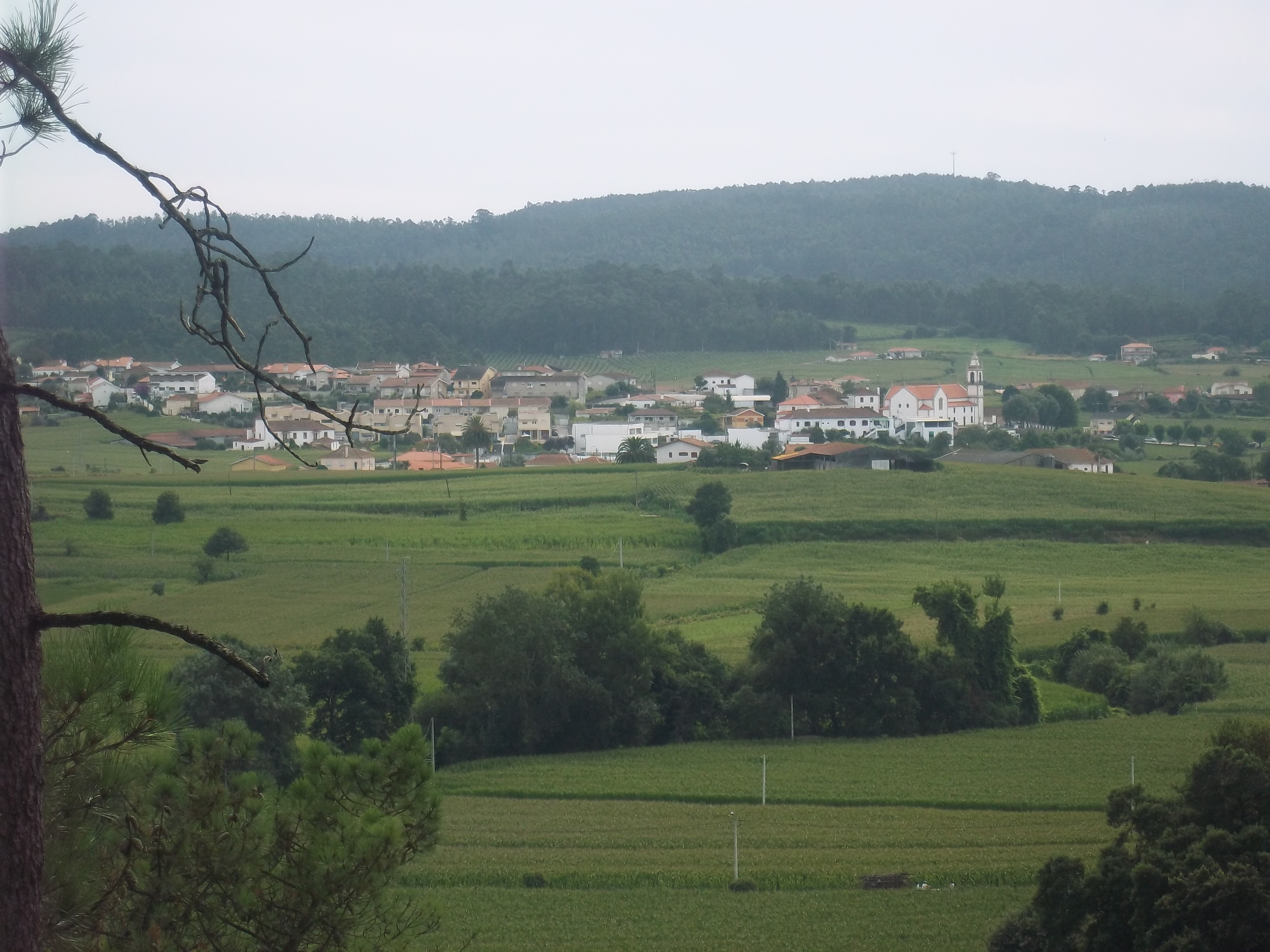 Balasar